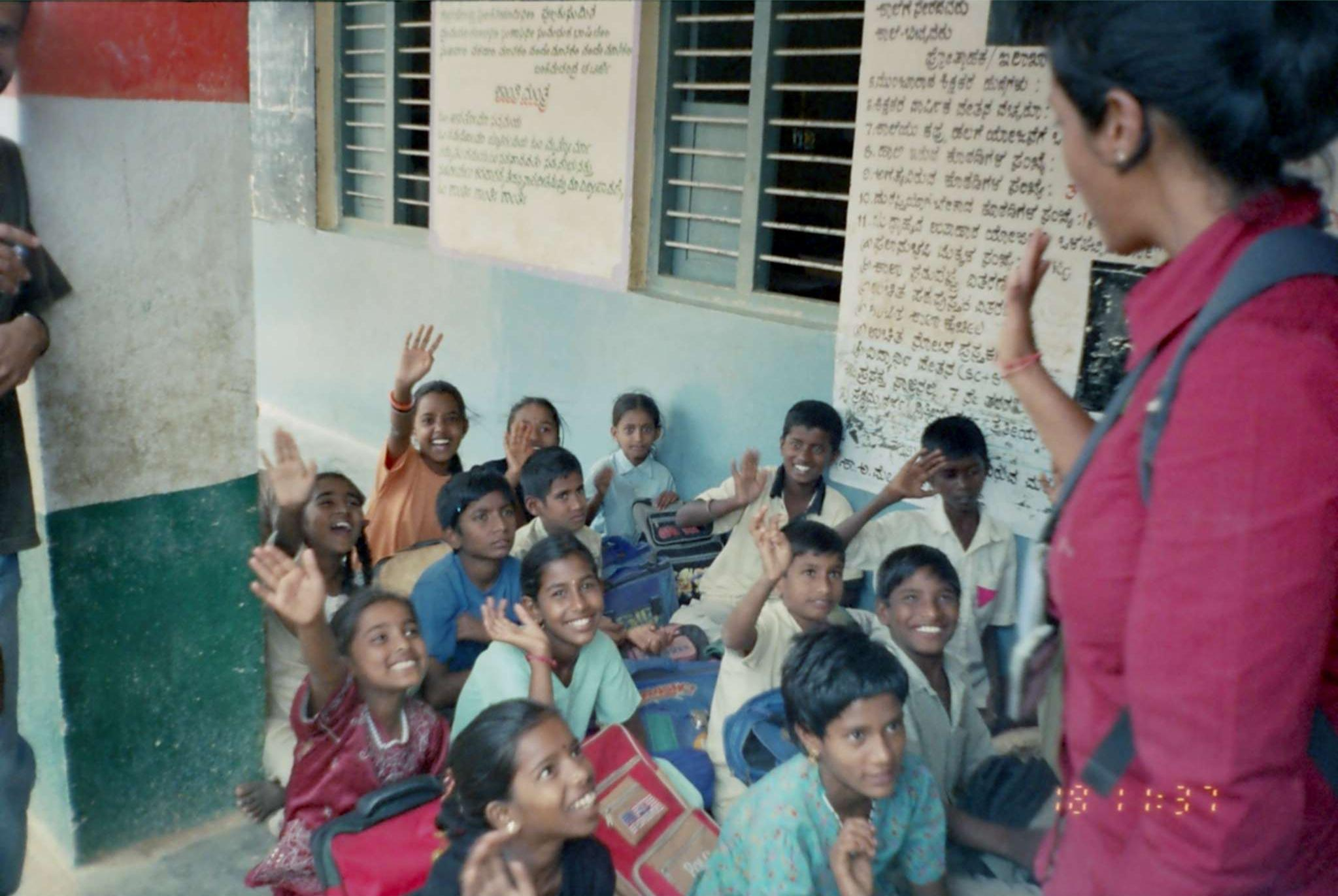 A classroom in a school located in the outskirts of Bangalore, India